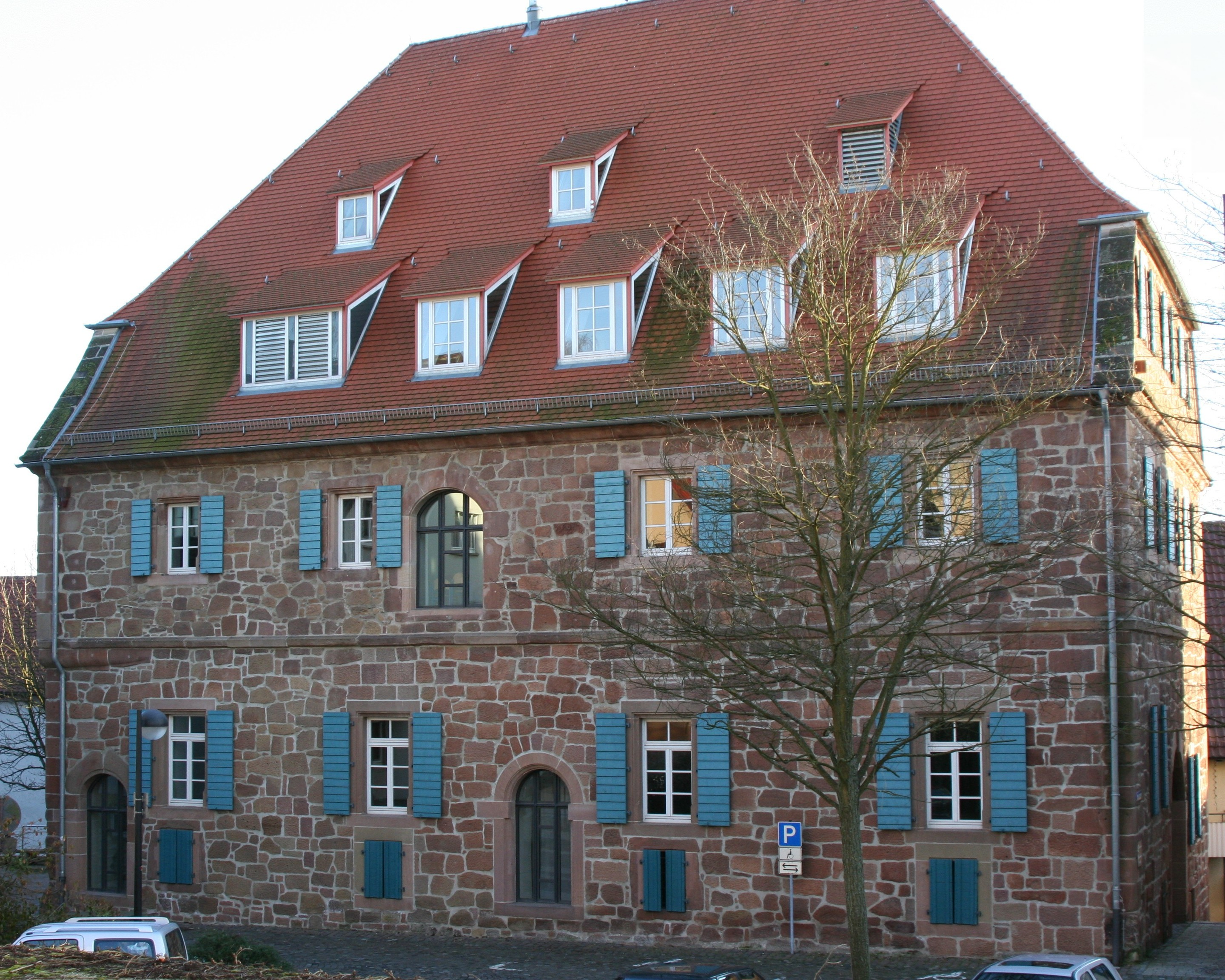 The Baukelter (old wine press building) in Weinsberg